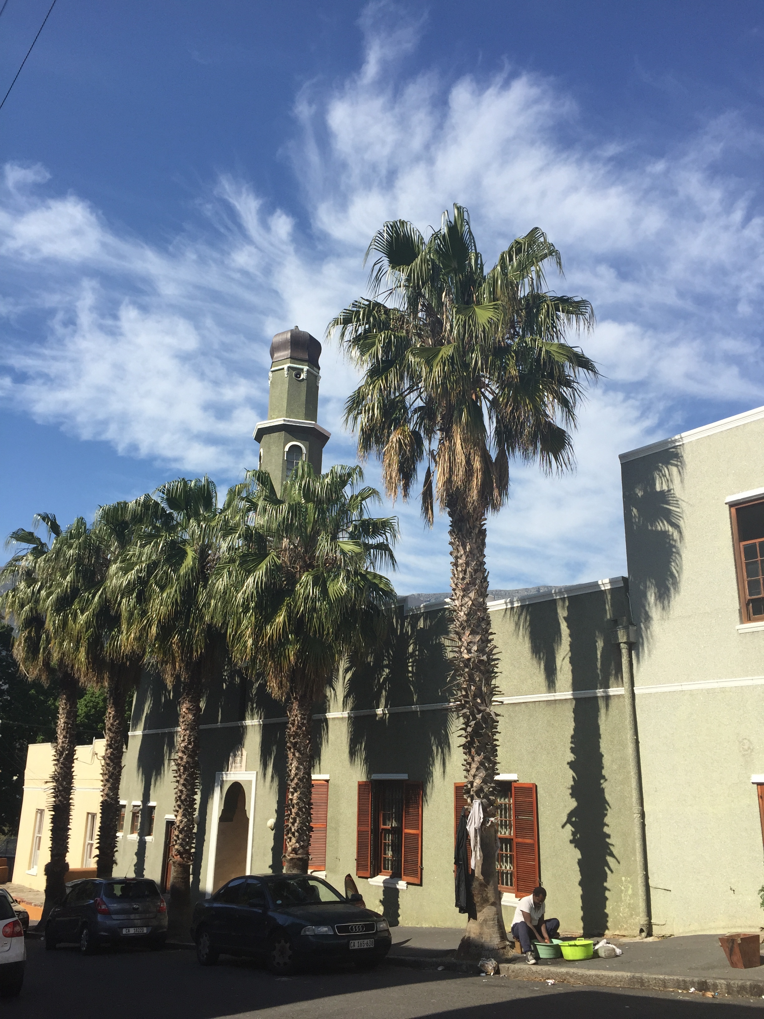 Auwal Mosque in Bo-Kaap is the oldest Mosque in Cape Town, Bo-Kaap area. This media shows a South African Protected Site with SAHRA file reference 9/2/018/0008.